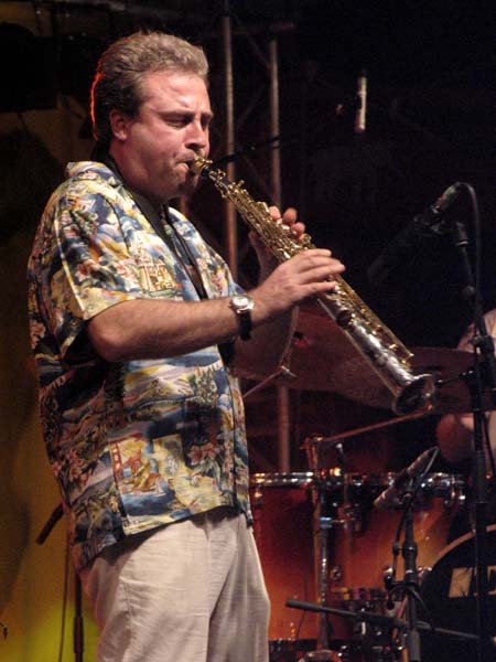 Tim Garland at moers festival 2004 own photo, may 31, 2004- photo: nomo/michael hoefner